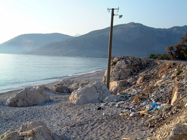 A garbage dump in Albania